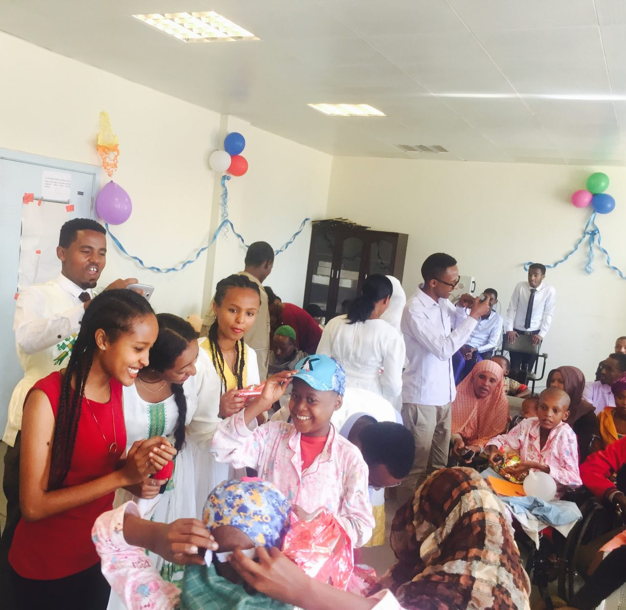 On 29,04,2011 E.C. members of EMSA jimma celebrated christmas with pediatric oncology patients at Jimma University Medical center This is an image with the theme "Play" from: Ethiopia